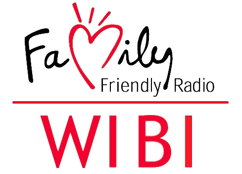 Official "Family Friendly Radio" Logo of WIBI Christian radio, Illinois Bible Institute, Carlinville, Illinois.